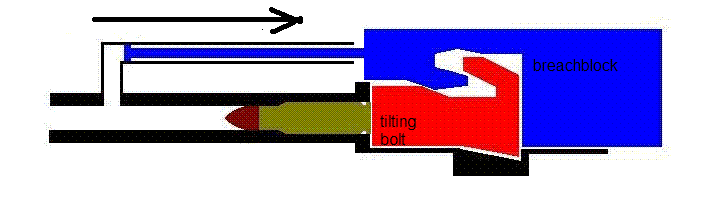 Tilting block action